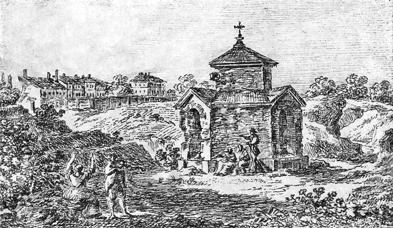 Kalwaria Ujazdowska